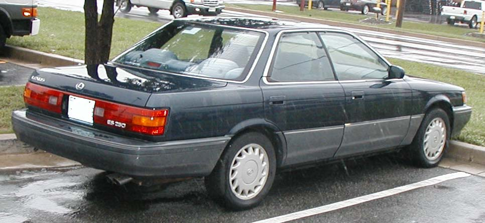 1989-1991 Lexus ES250 photographed in USA.